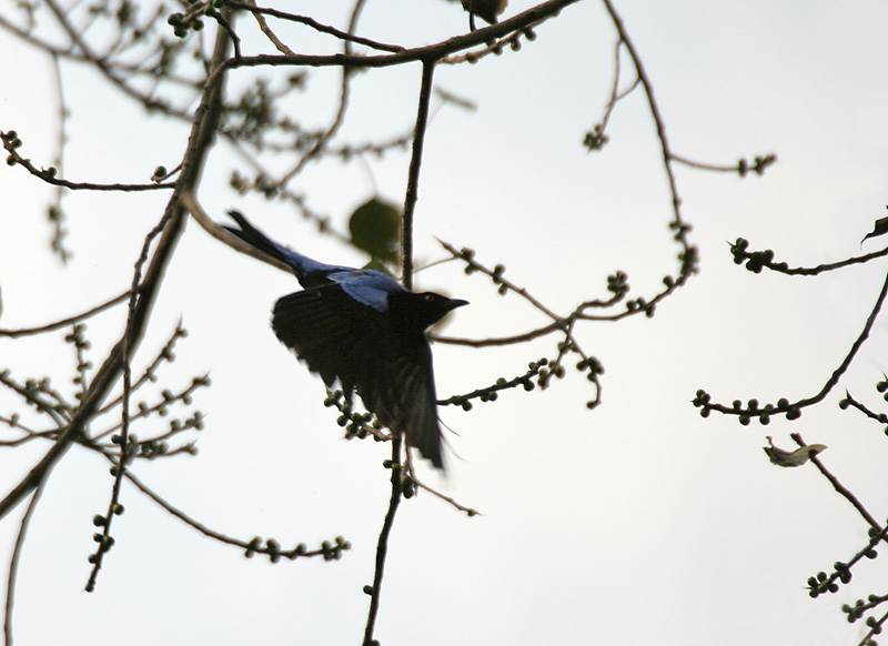 Asian Fairy Bluebird Irena puella at Jayanti in Buxa Tiger Reserve in Jalpaiguri district of West Bengal, India.